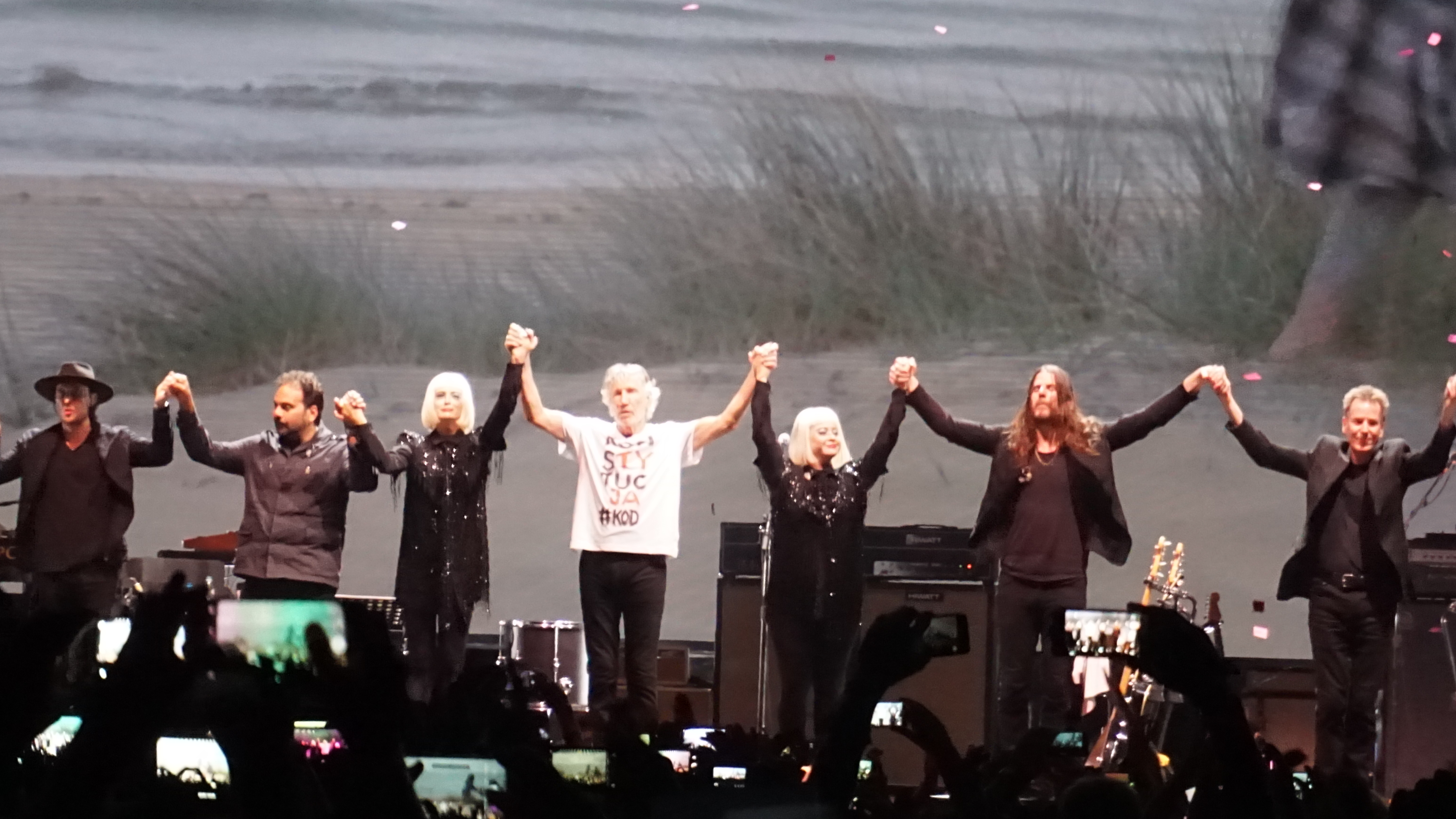 Roger Waters wearing a T-shirt with the inscription "Konstytucja #KOD" (Constitution # Komitet Obrony Demokracji, Committee for the Defence of Democracy) during his concert in Gdansk on August 5, 2018.